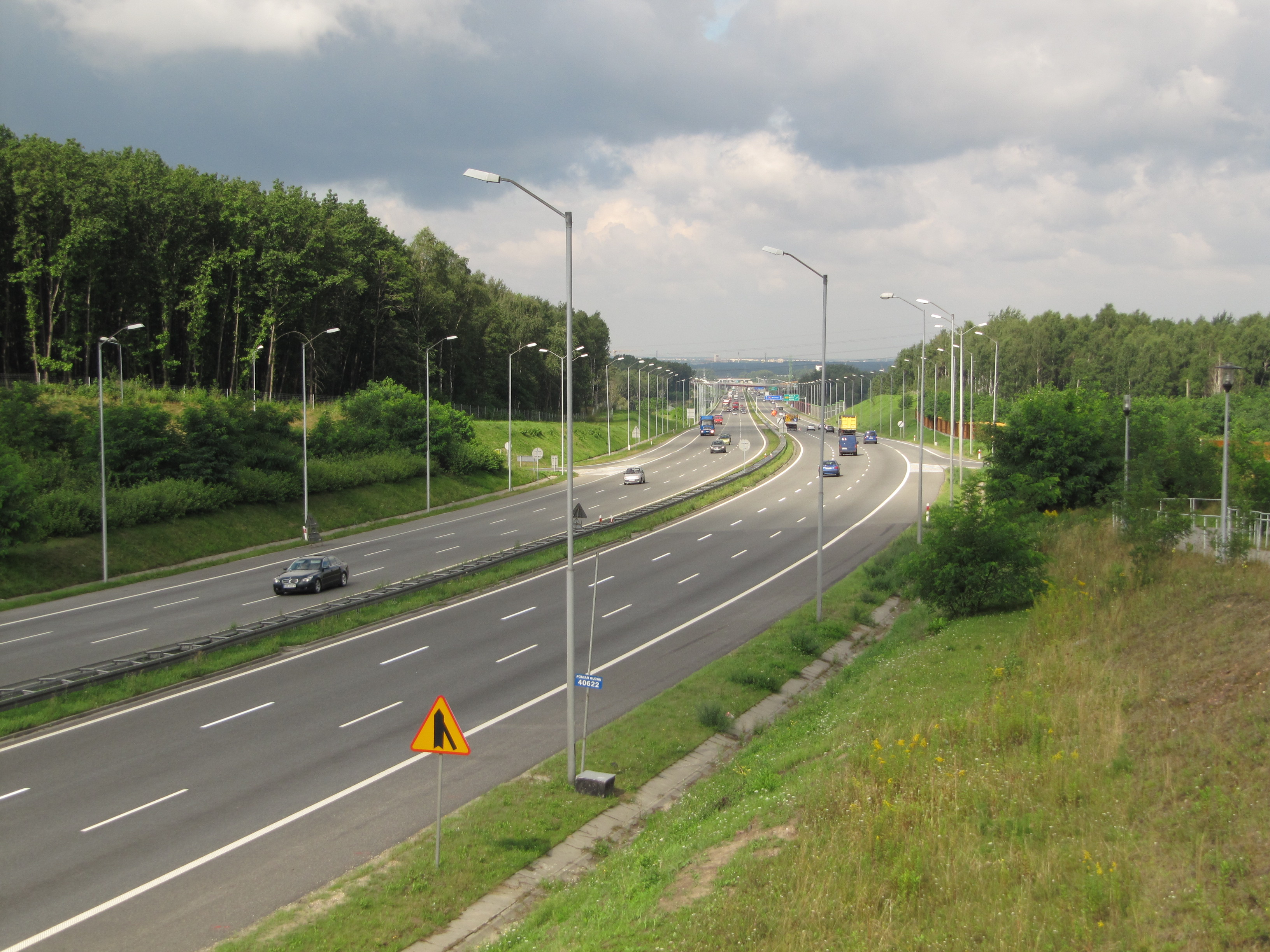 Freeway A4 (Poland), Ruda Ślaska